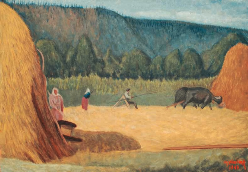 Mehmet Yuceturk Harman Picture